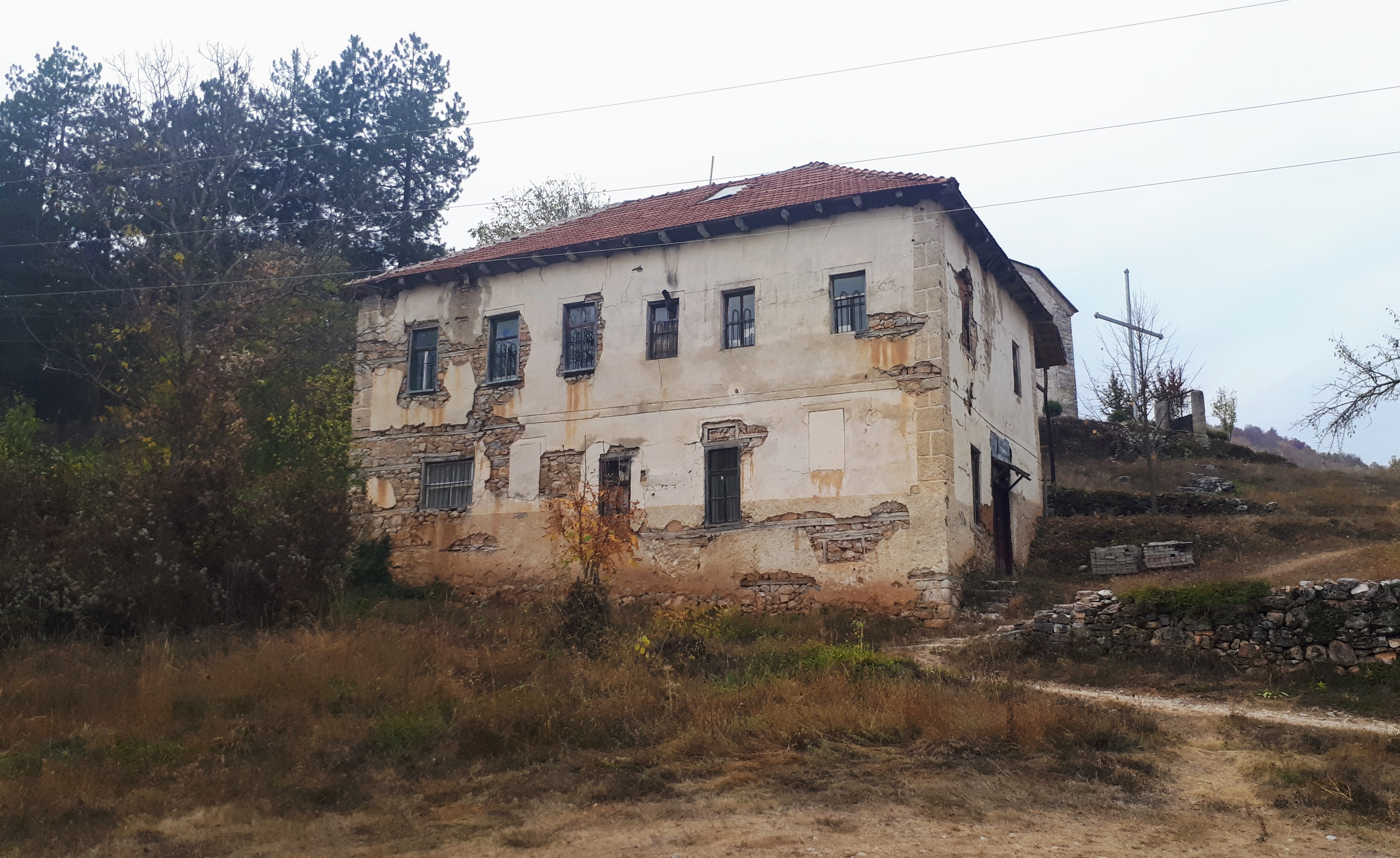 Former primary school in the village Prostranje